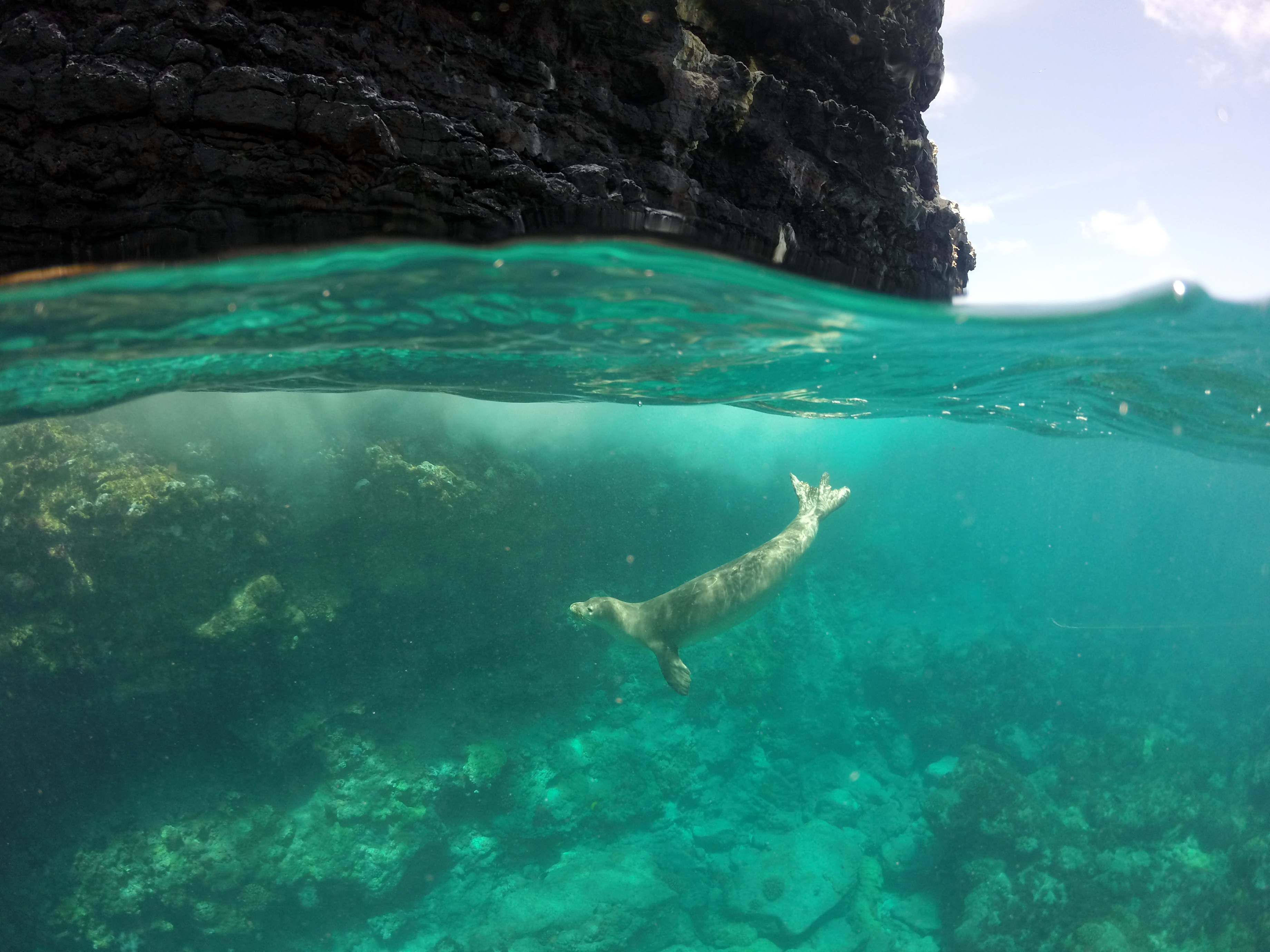 A magnificent photo of sea, swell, sky, a rock cliff, and a monk seal swimming over a coral reef bottom. Image ID: anim2605, NOAA's Ark Collection Location: Hawaii, Northwest Hawaiian Islands Credit: NOAA/PIFSC/HMSRP